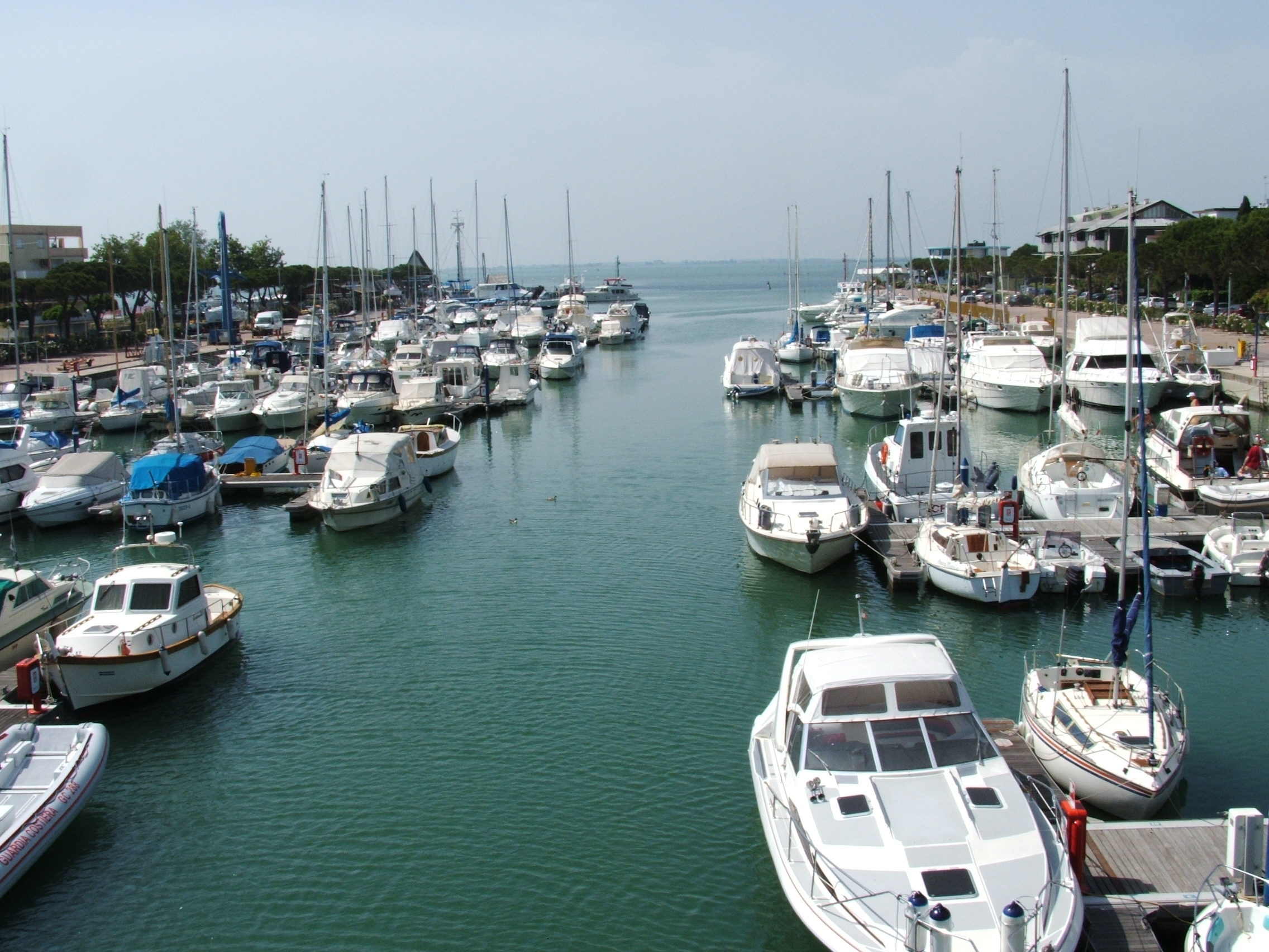 Lignano Sabbiadoro (UD), Italy - port